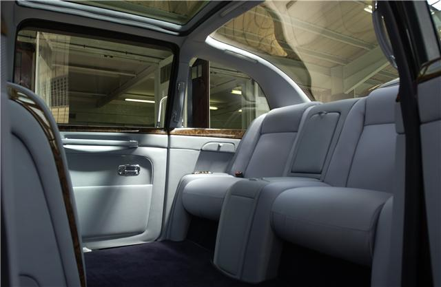 Photograph of HM The Queen's Bentley State Limousine interior, upholstered in Hield cloth.